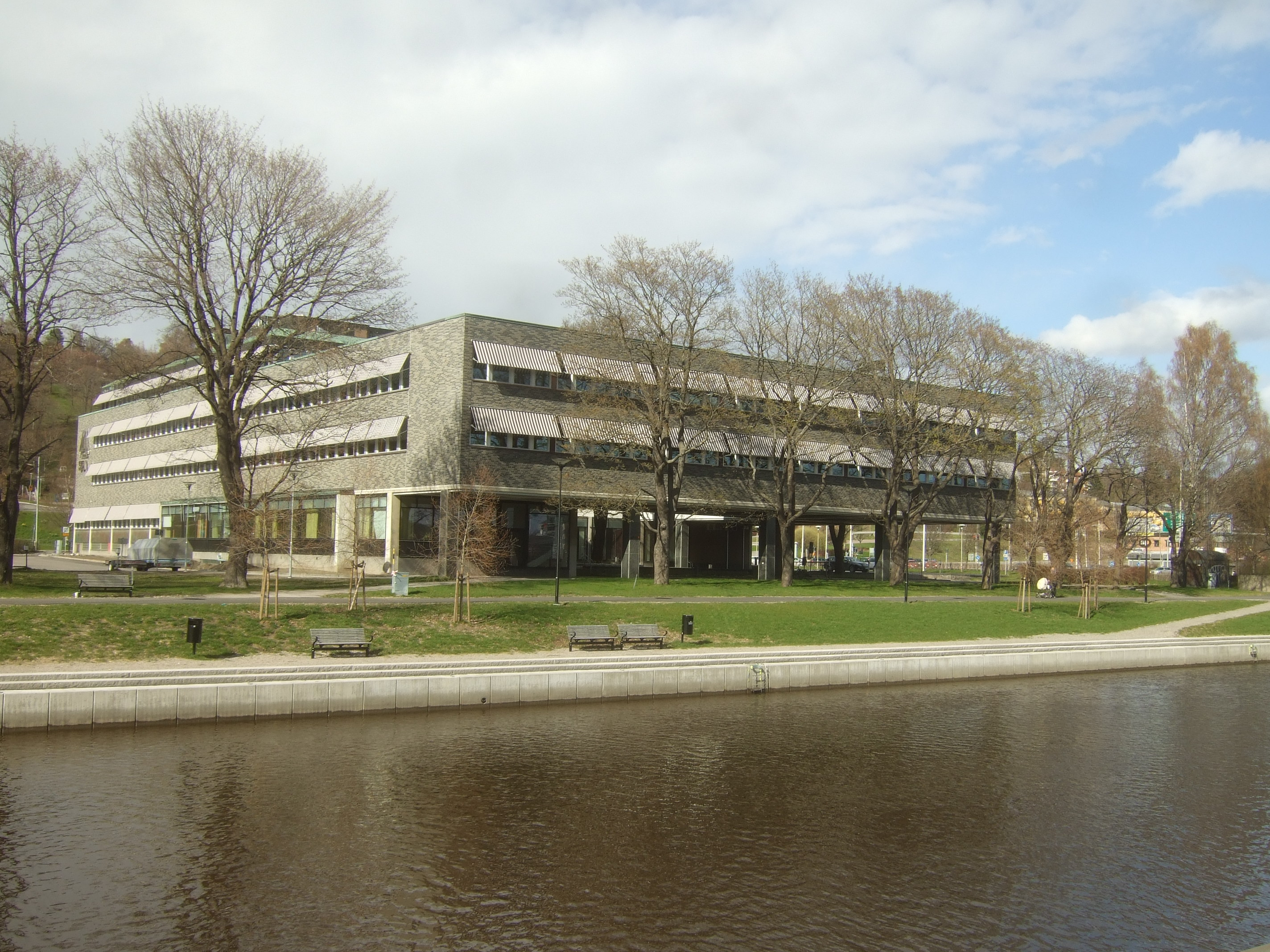 The river park side of the SCA office bulding at Skepparegatan 1 in Sundsvall, viewed from southwest. Built in 1959. Architect: Axel Grönwall